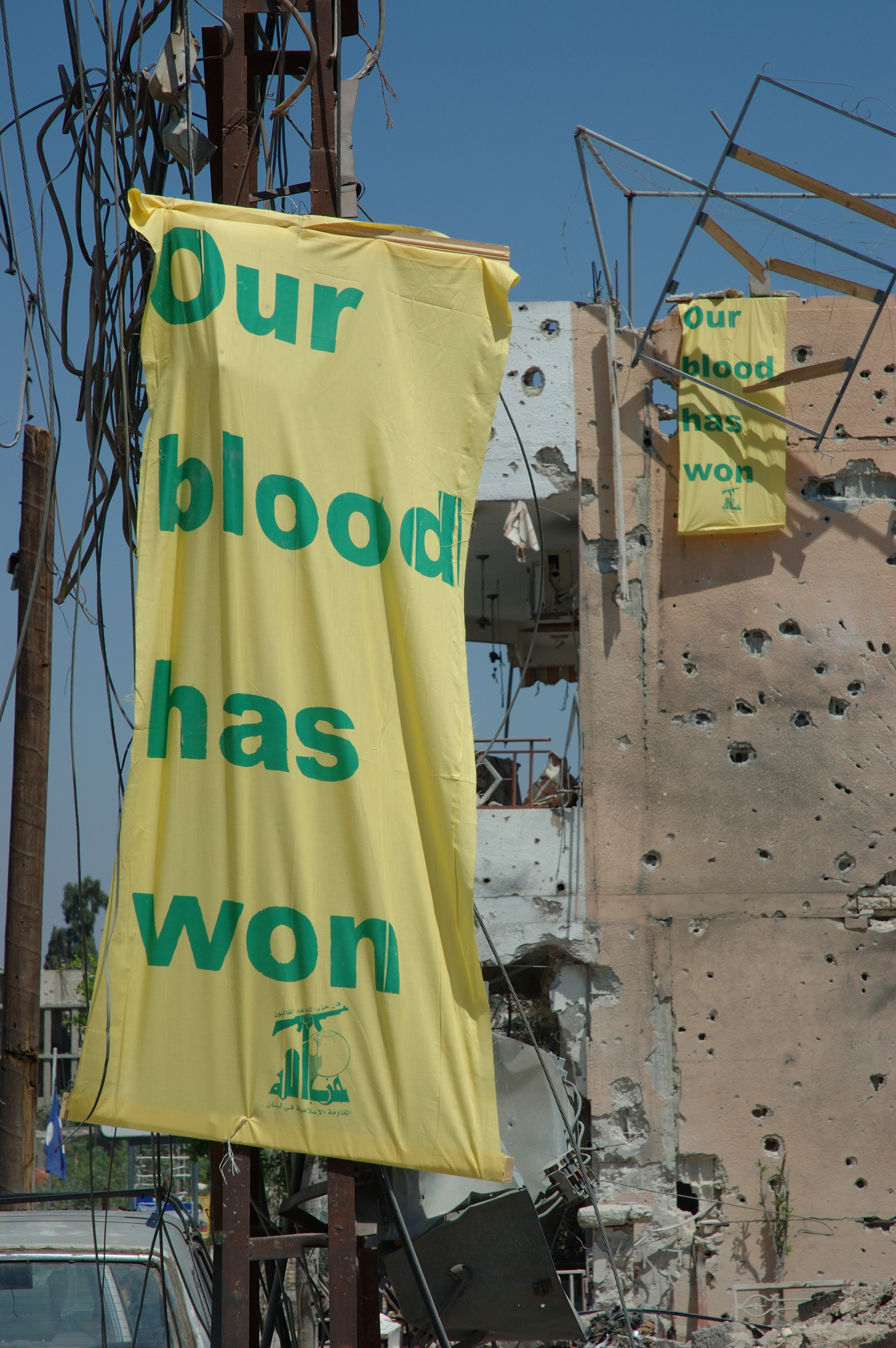 Banners with the text "Our blood has won" in the aftermath of the 2006 war in South Lebanon.